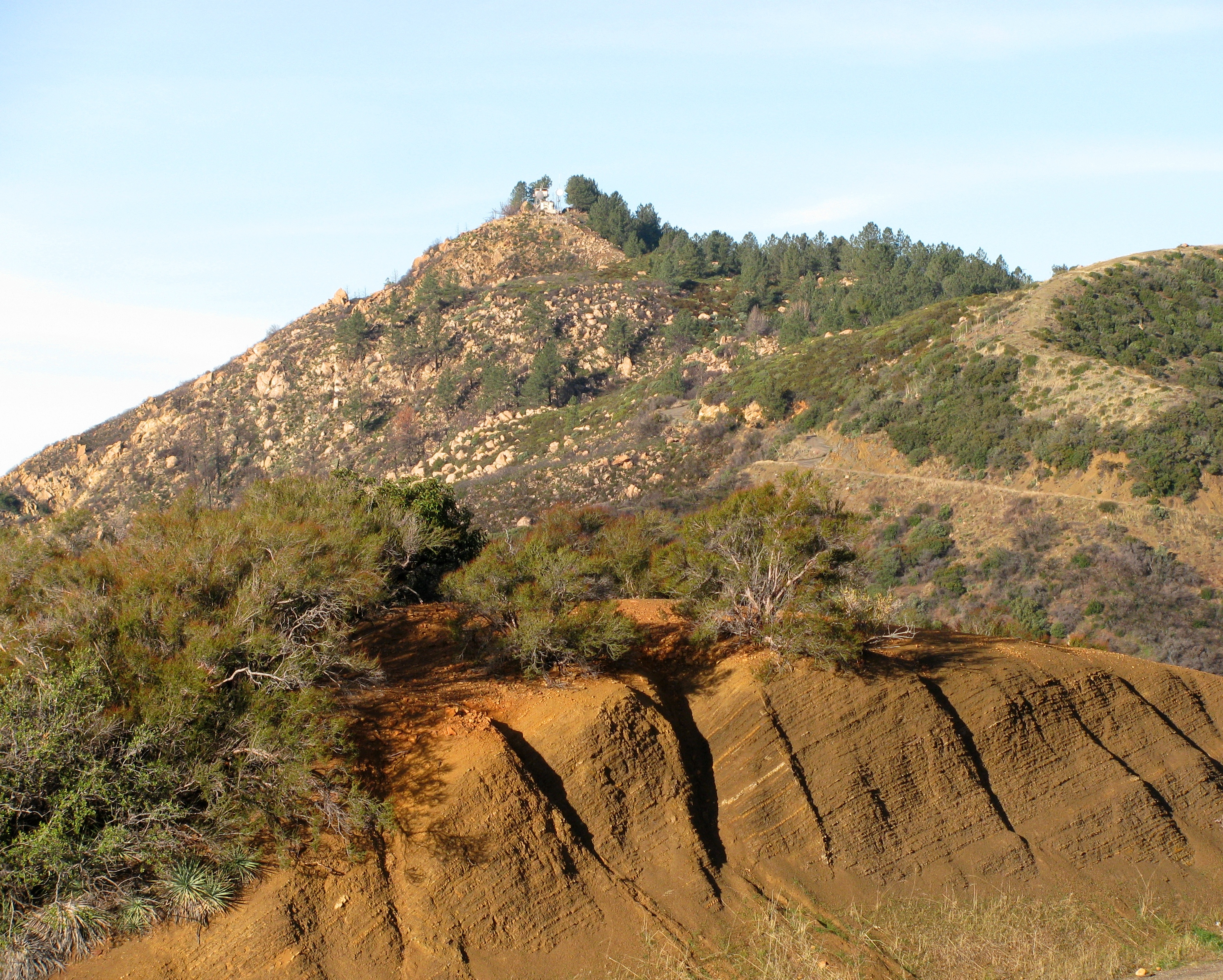 La Cumbre Peak, Santa Ynez Mountains, with Juncal Shale formation in foreground; photo by self, 12/11/2010; GFDL/equiv.